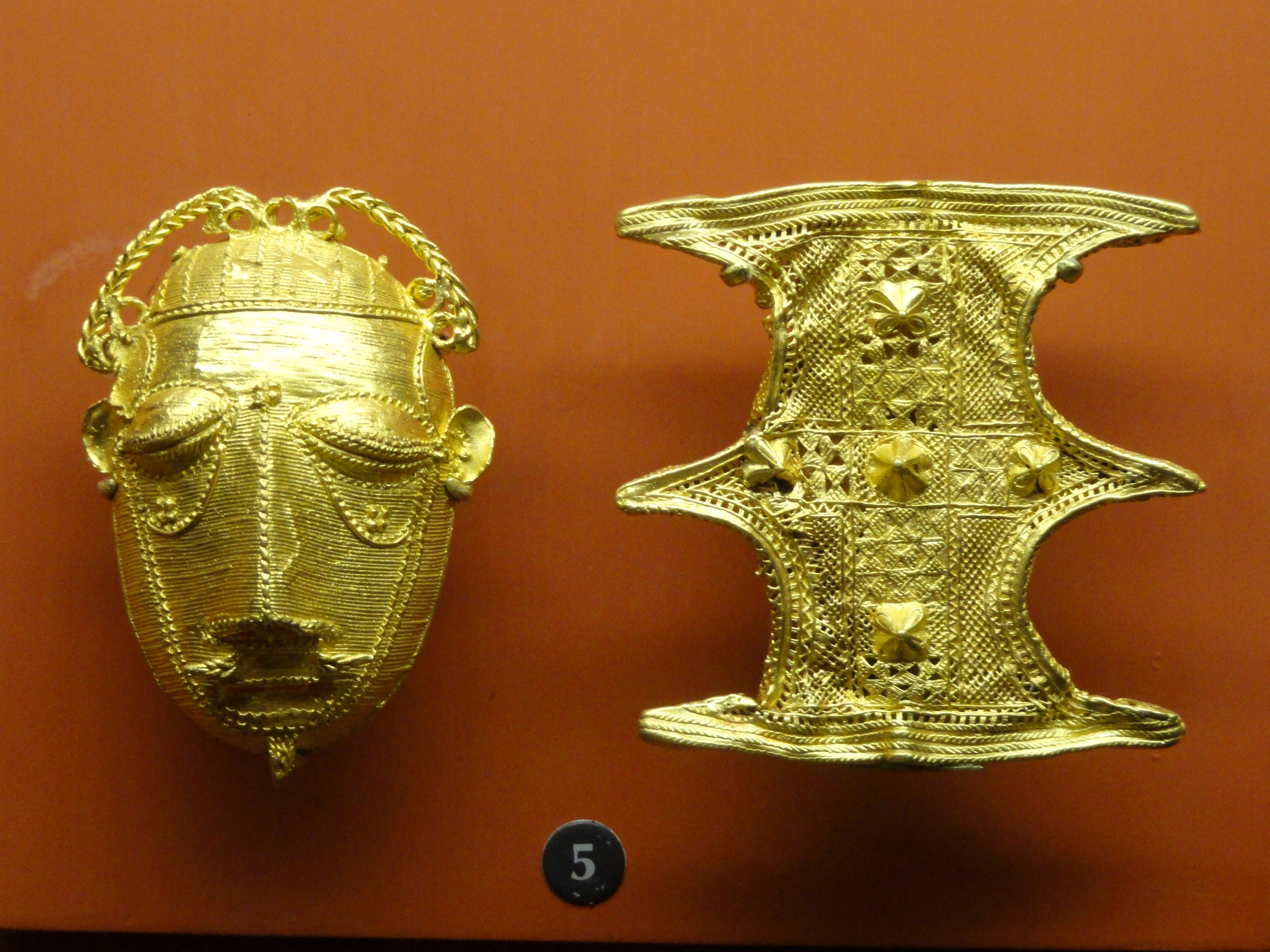 Exhibit in the African collection of the American Museum of Natural History, Manhattan, New York City, New York, USA.